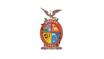 Flag of the State of Sinaloa, Mexico.